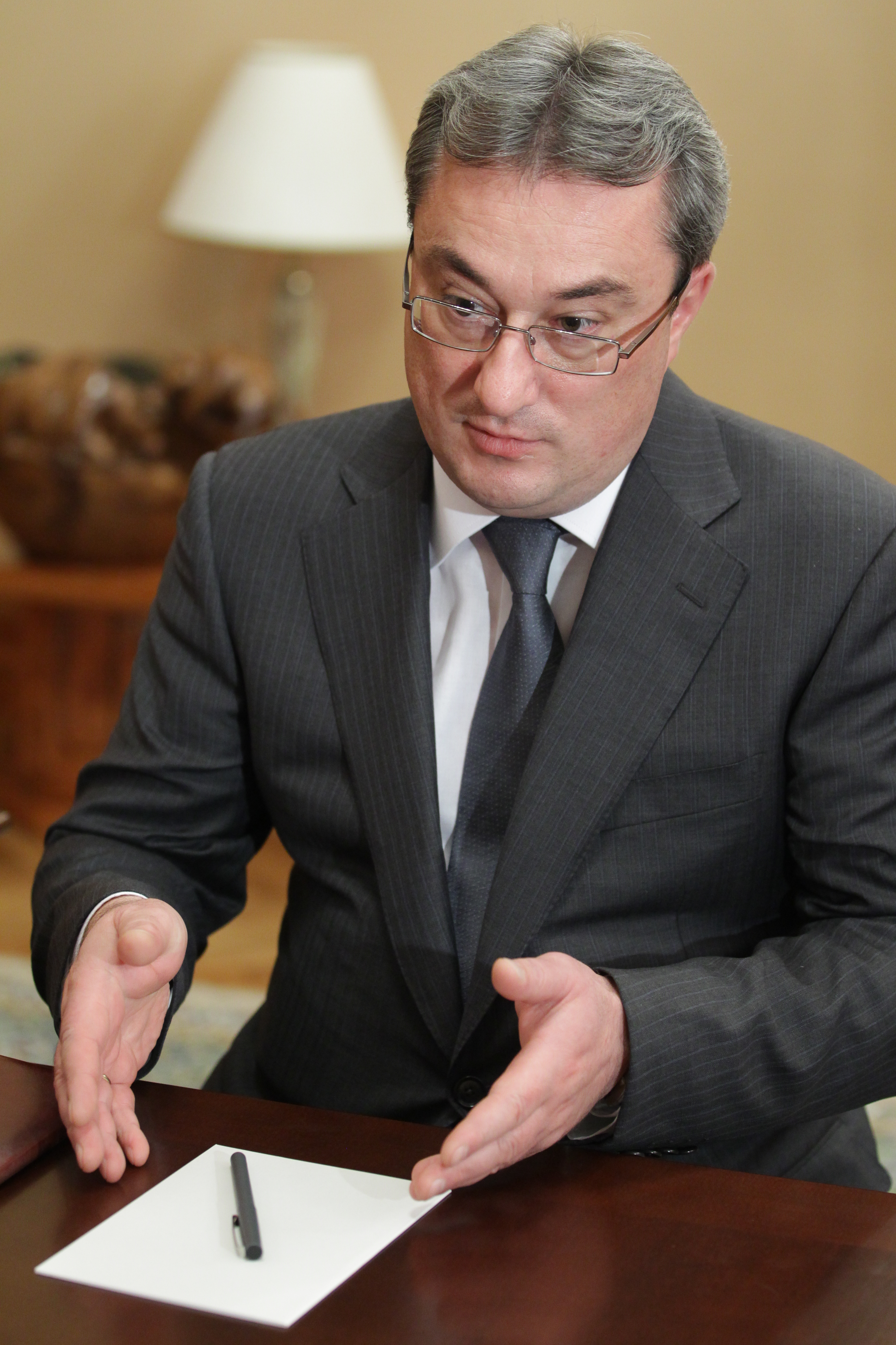 Head of the Republic of Komi, Vyacheslav Gaizer, meeting with Prime Minister Vladimir Putin